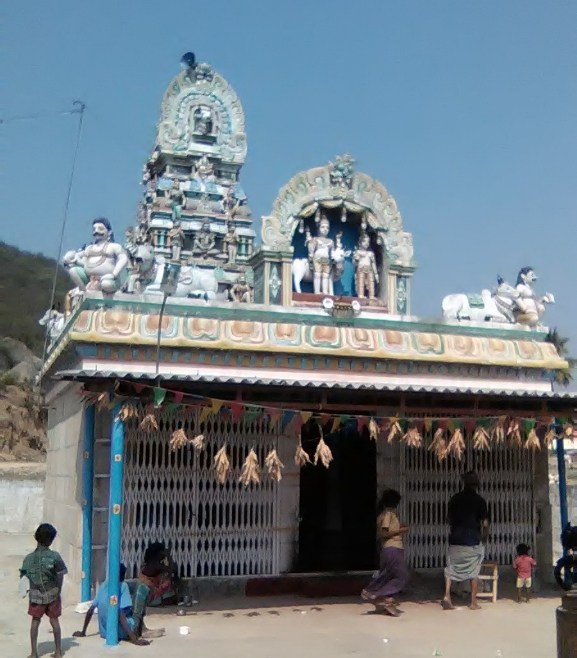 ஆவல்நத்தம் பசுவேஸ்வரர் கோயில் என்பது தமிழ்நாட்டில் கிருஷ்ணகிரி மாவட்டம், ஆவல்நத்தம் என்னும் ஊரில் அமைந்துள்ள பசவேசுவரர் கோயிலாகும்